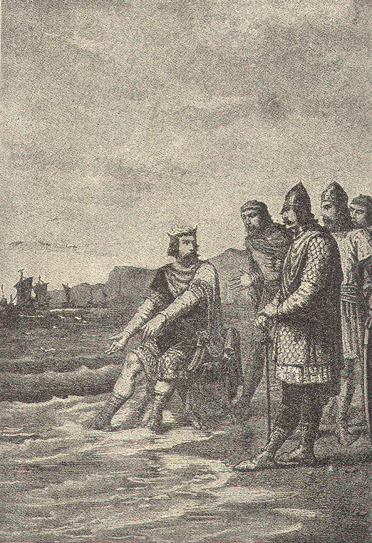 Illustration of the Cnut and the Waves episode by Alphonse-Marie-Adolphe de Neuville